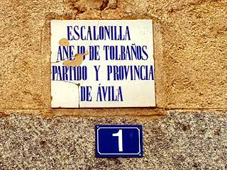 Plate showing that Escalonilla belongs to Tolbaños.